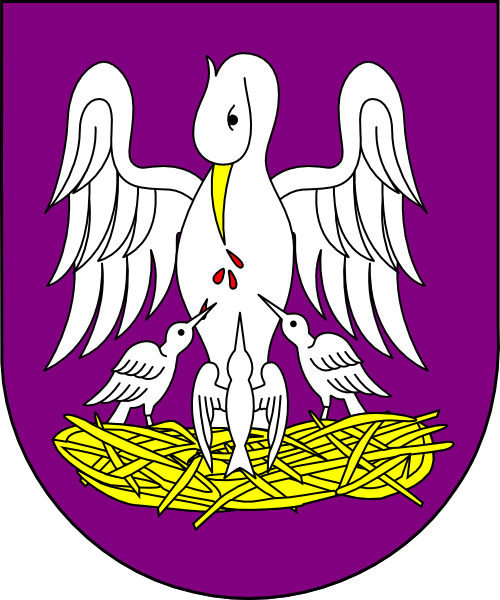 Coat of arms (shield only) of Károly Rimely, bishop of Banská Bystrica, Slovakia (1893 - 1904). Based on the medal issued in 1904. Tinctures based on Numizmatikai közlöny, Vol. 10 - 12, 1911: (hungarian) "kartusszerü pajzsban ovális, bibor jelzésü mezöben fiait tápláló pelikán". See also drawing in "A Katholikus Magyarország III", p. 799